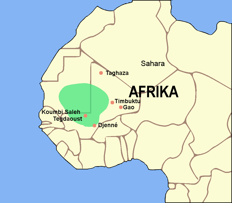 Map of the Ghana Empire. (German version)